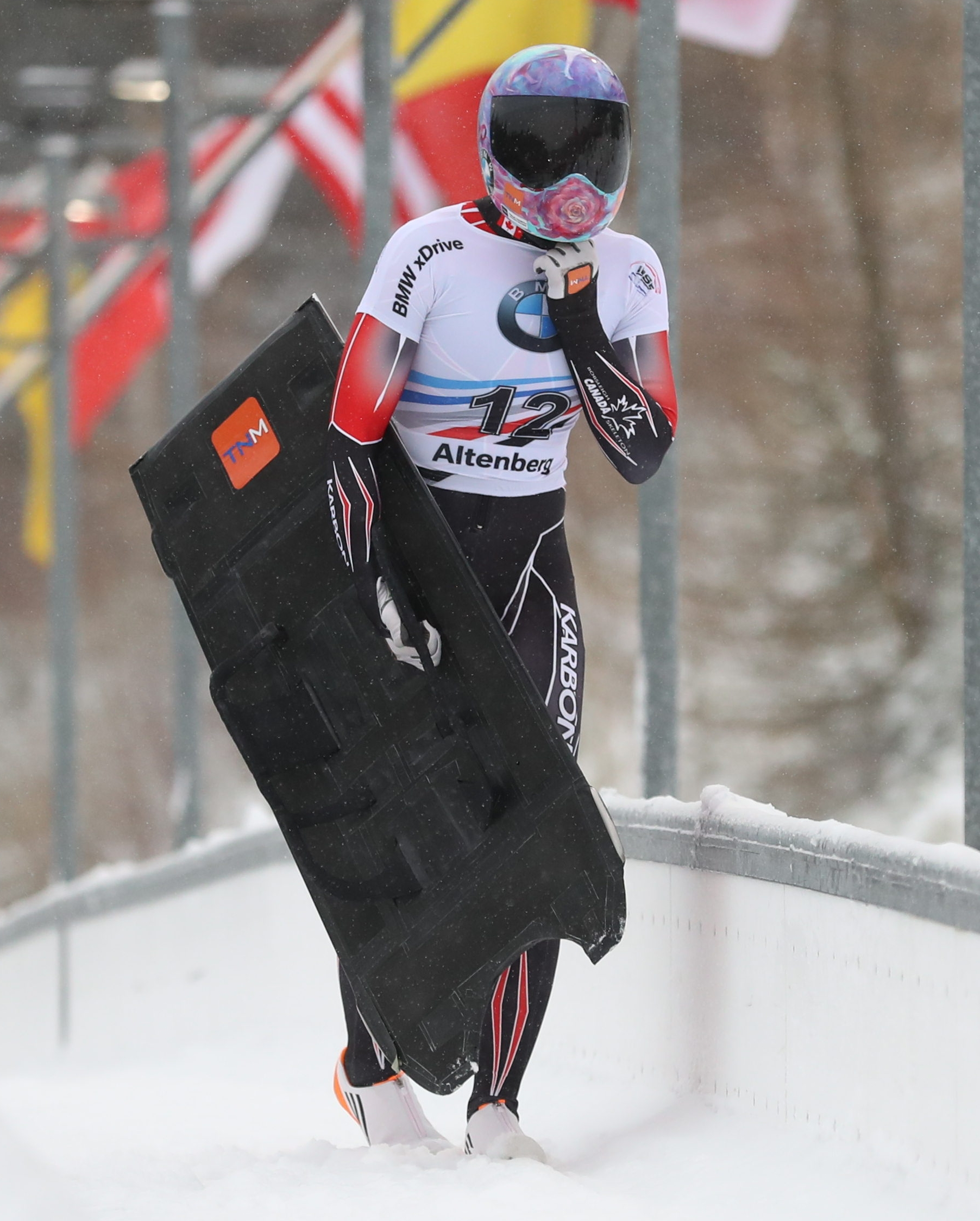 Women's World Cup race at the 2018/19 Skeleton World Cup in Altenberg